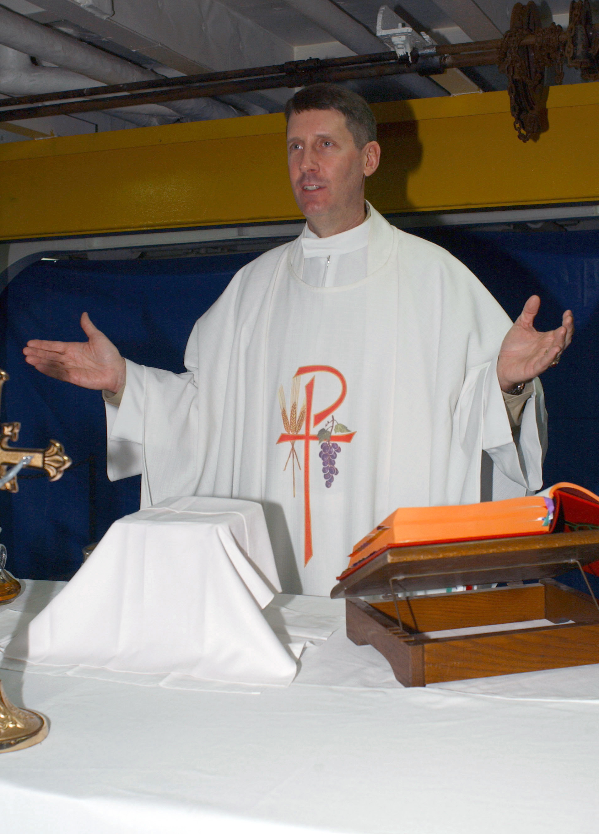 At sea aboard USS Constellation (CV 64) Dec. 31, 2002 – Lt. Cmdr. Robert McClanahan gives thanks during Catholic Mass on Christmas day, in the ship’s chapel. Constellation is currently on a regularly scheduled six-month deployment, conducting missions in support of Operation Enduring Freedom. U.S. Navy photo by Photographer's Mate 3rd Class Casey D. Tweede. (RELEASED)